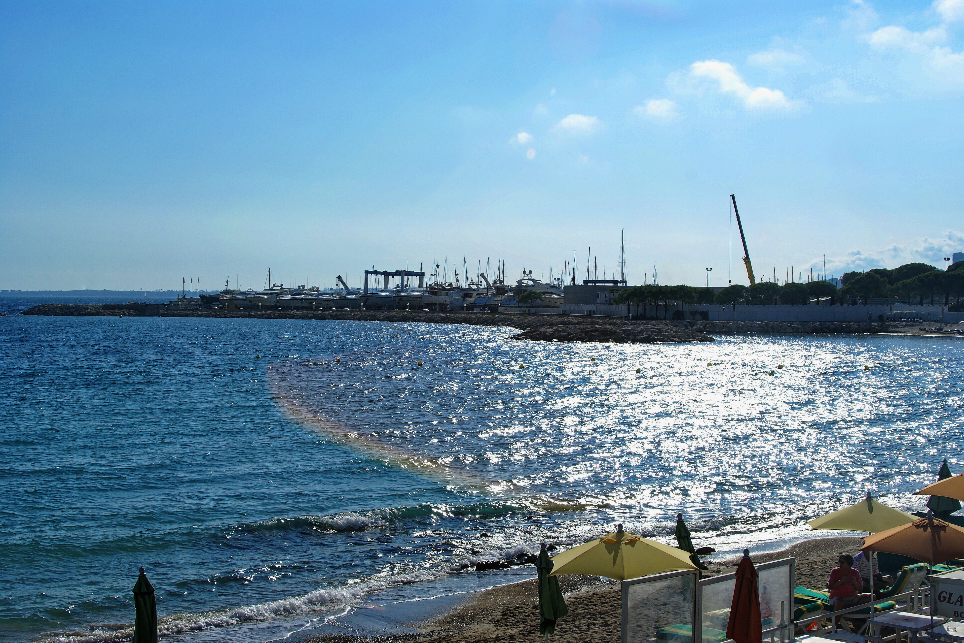 Golfe Juan - Avenue des Frères Roustan - View SW on Port Camille Rayon